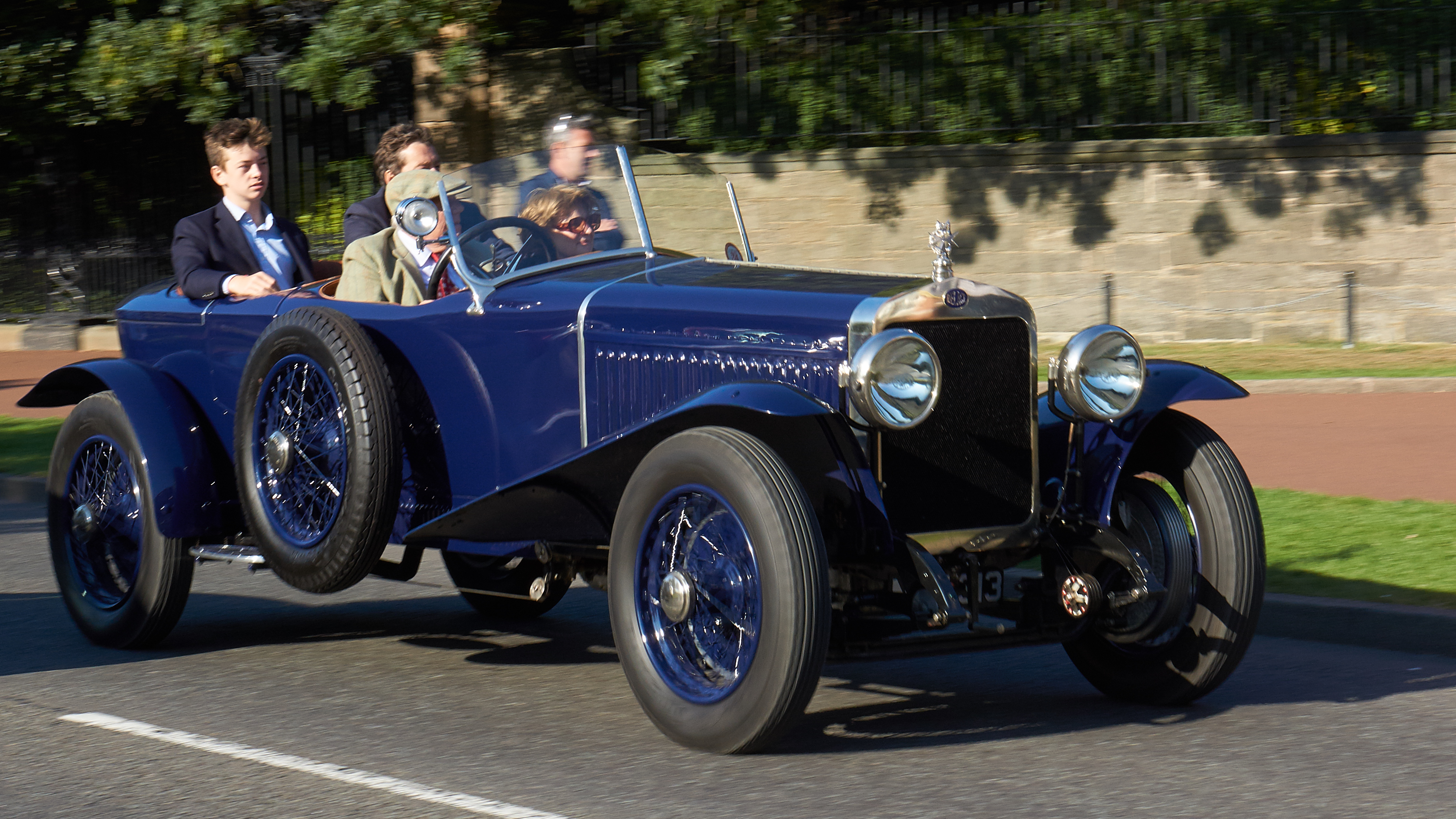 1922 1923 Delage CO2 4½ Litre dual-cowl tourer Holyrood House. Look at File talk for the year.